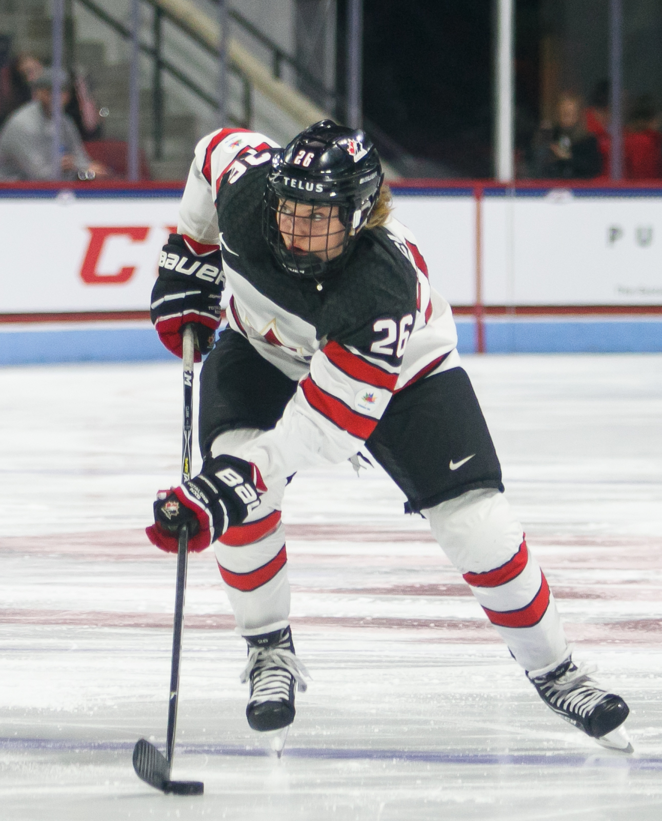 Emily Clark playing for Team Canada in 2017